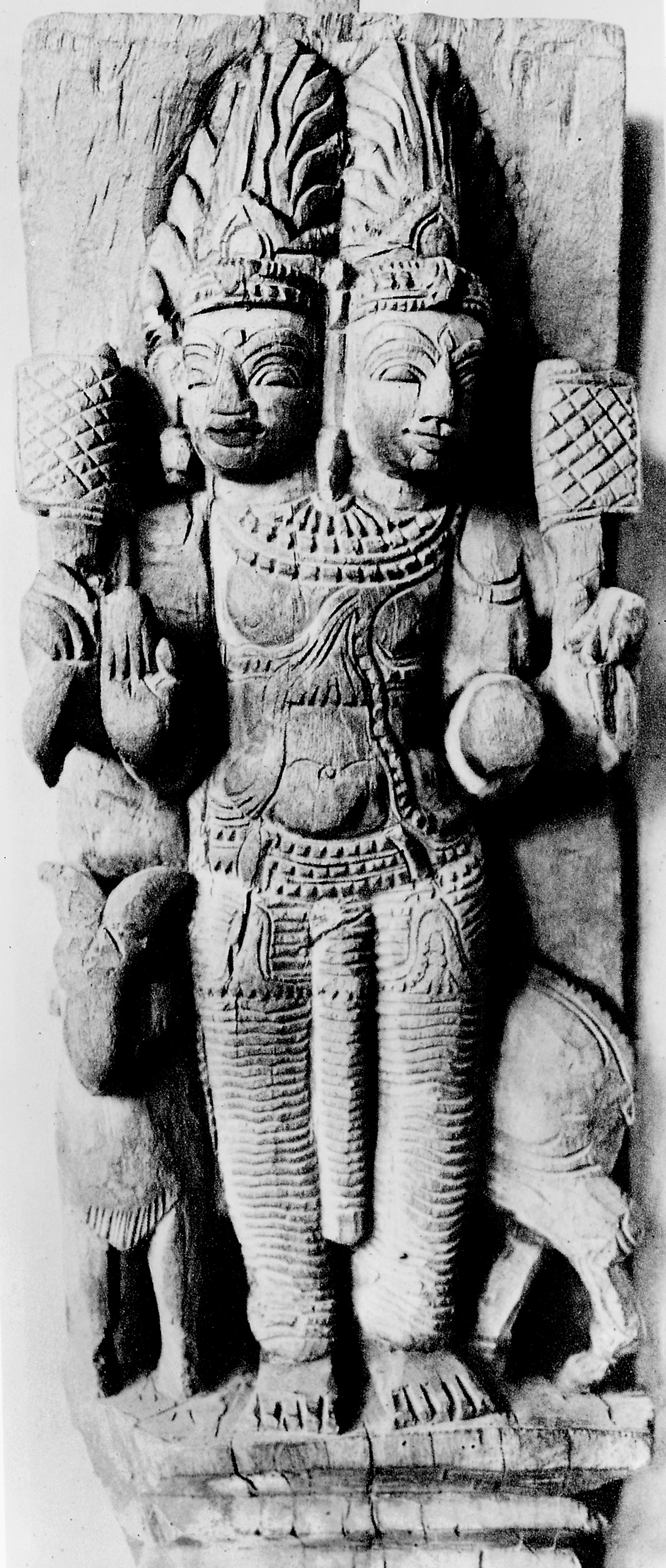 This is a trimmed, derivative work on the following file available through wikimedia under creative commons 4.0 license: Agni, god of fire. Wellcome M0009455.jpg Artwork's Museum ID: M0009455